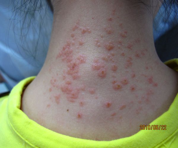 Photo of a girl suffering from Hydroa Vacciniforme